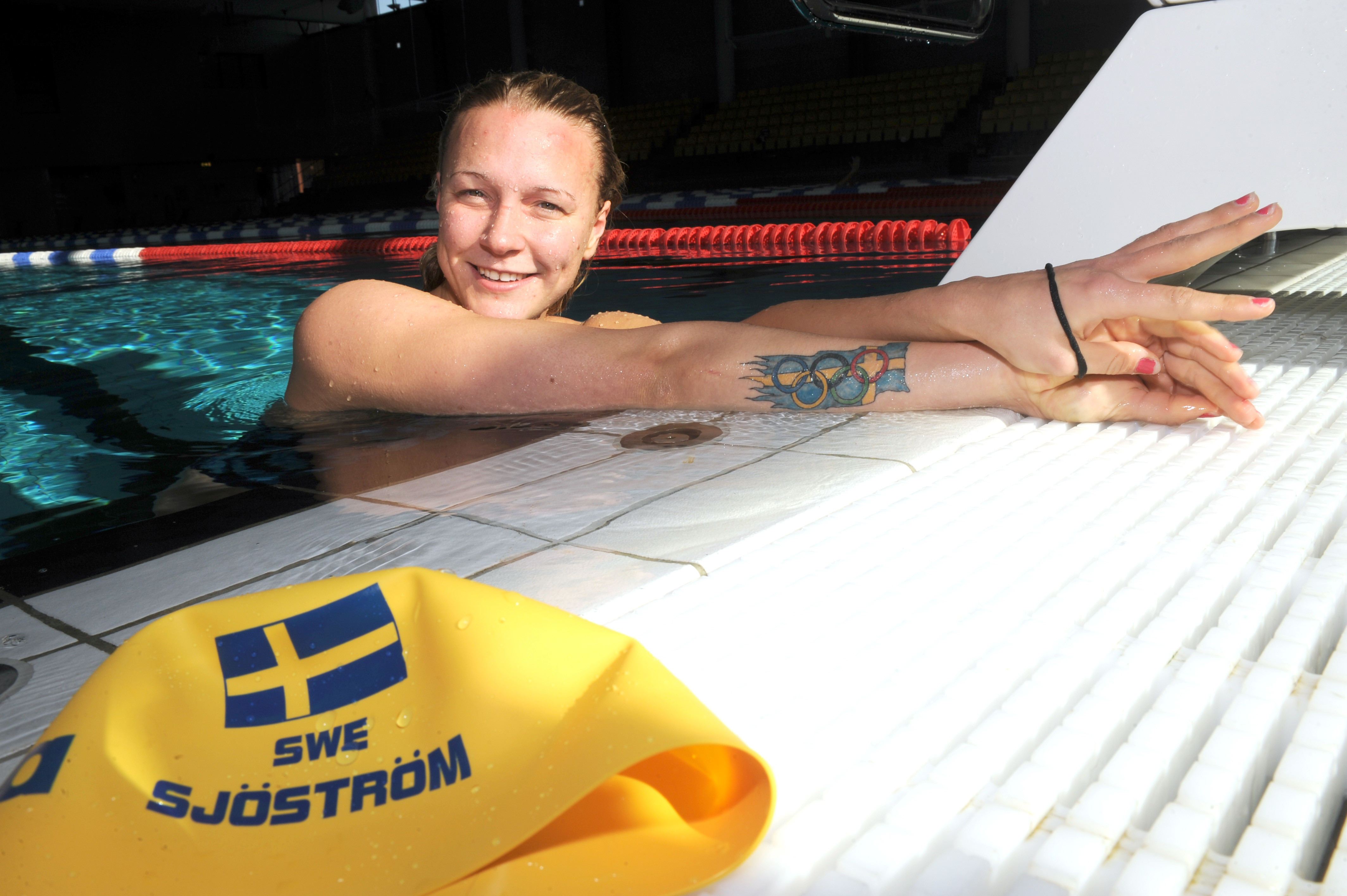 Swedish swimmer Sarah Sjöström.